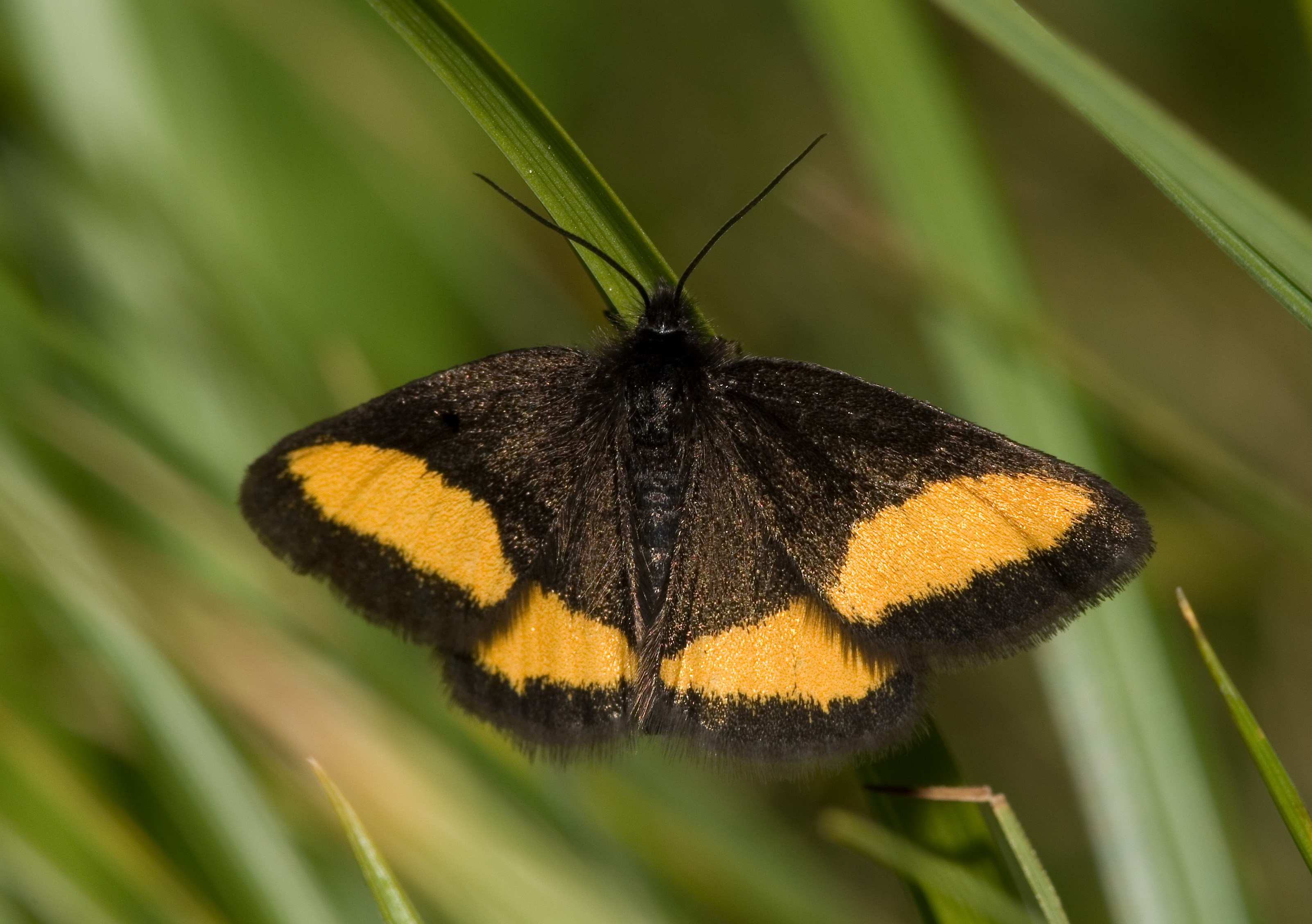 Please report references to kulacgmx.at.